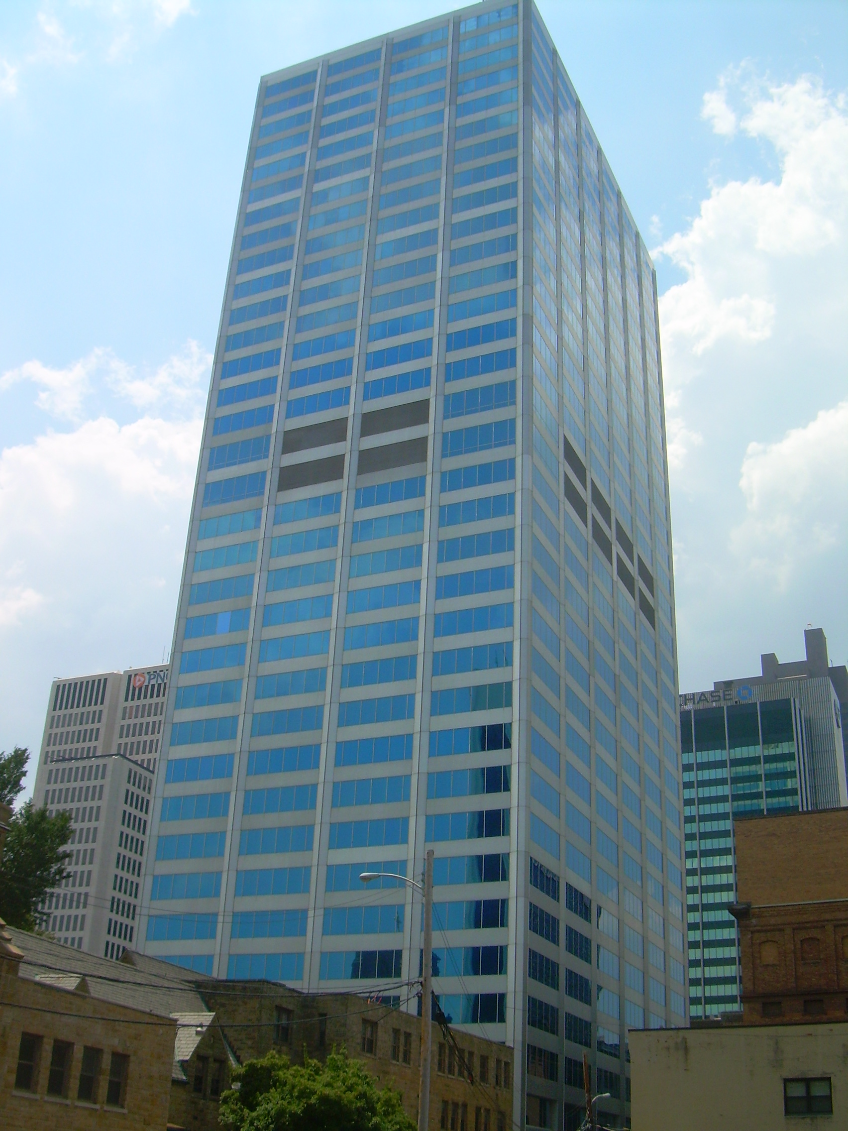 Borden Building, Downtown, Columbus, Ohio